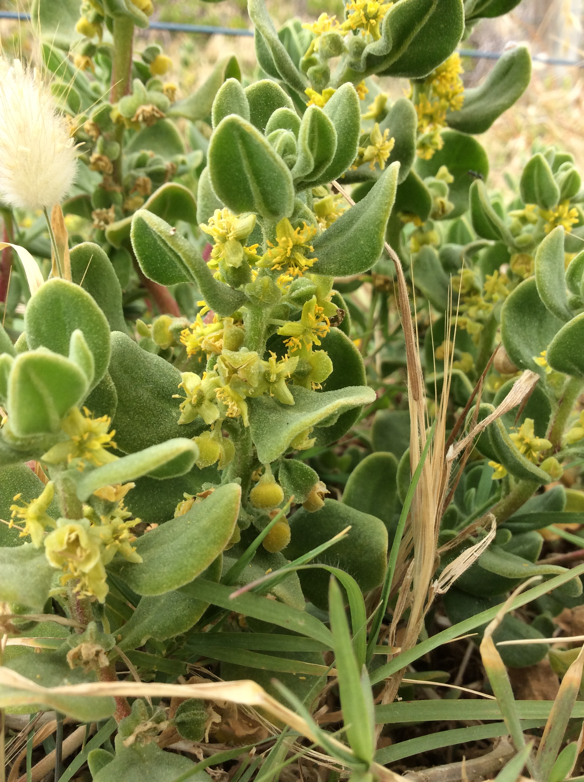 Tetragonia decumbens, Bunburry, Western Australia